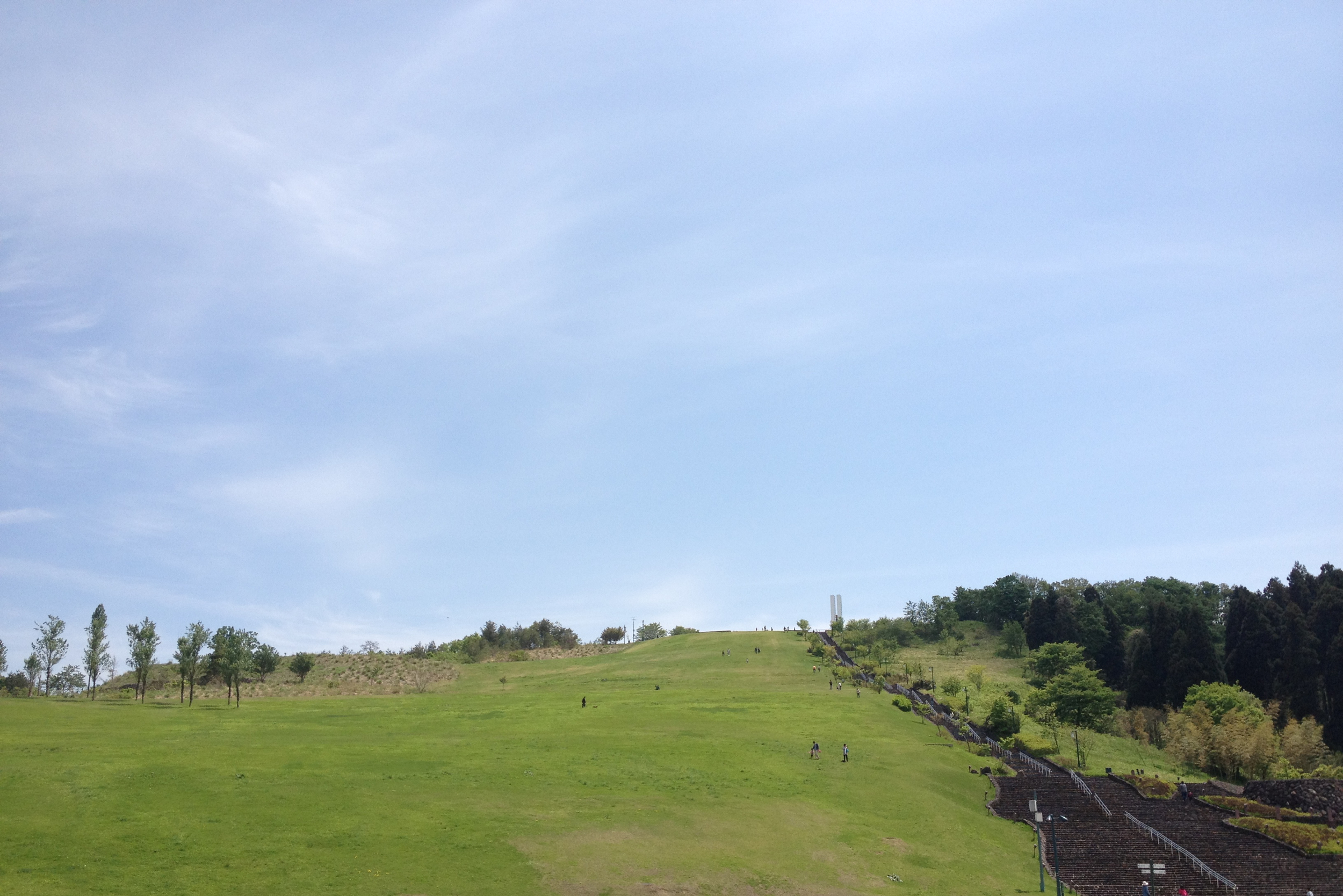 Folly Hill in Echigo Hillside National Government Park, Nagaoka, Niigata Prefecture, Japan